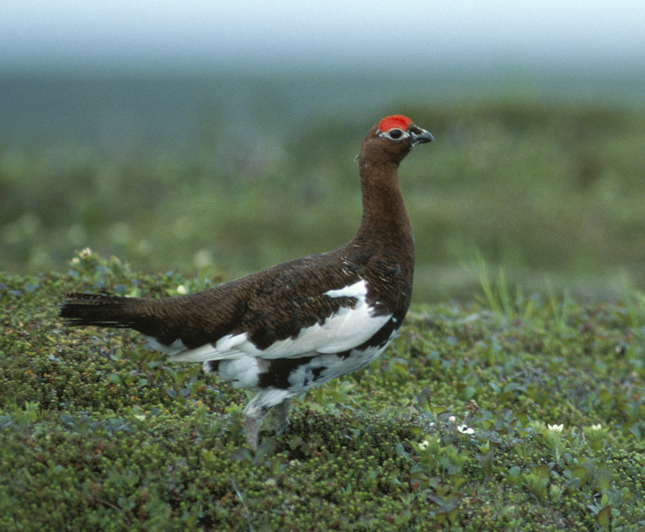 Lagopus lagopus alascensis, Alaska